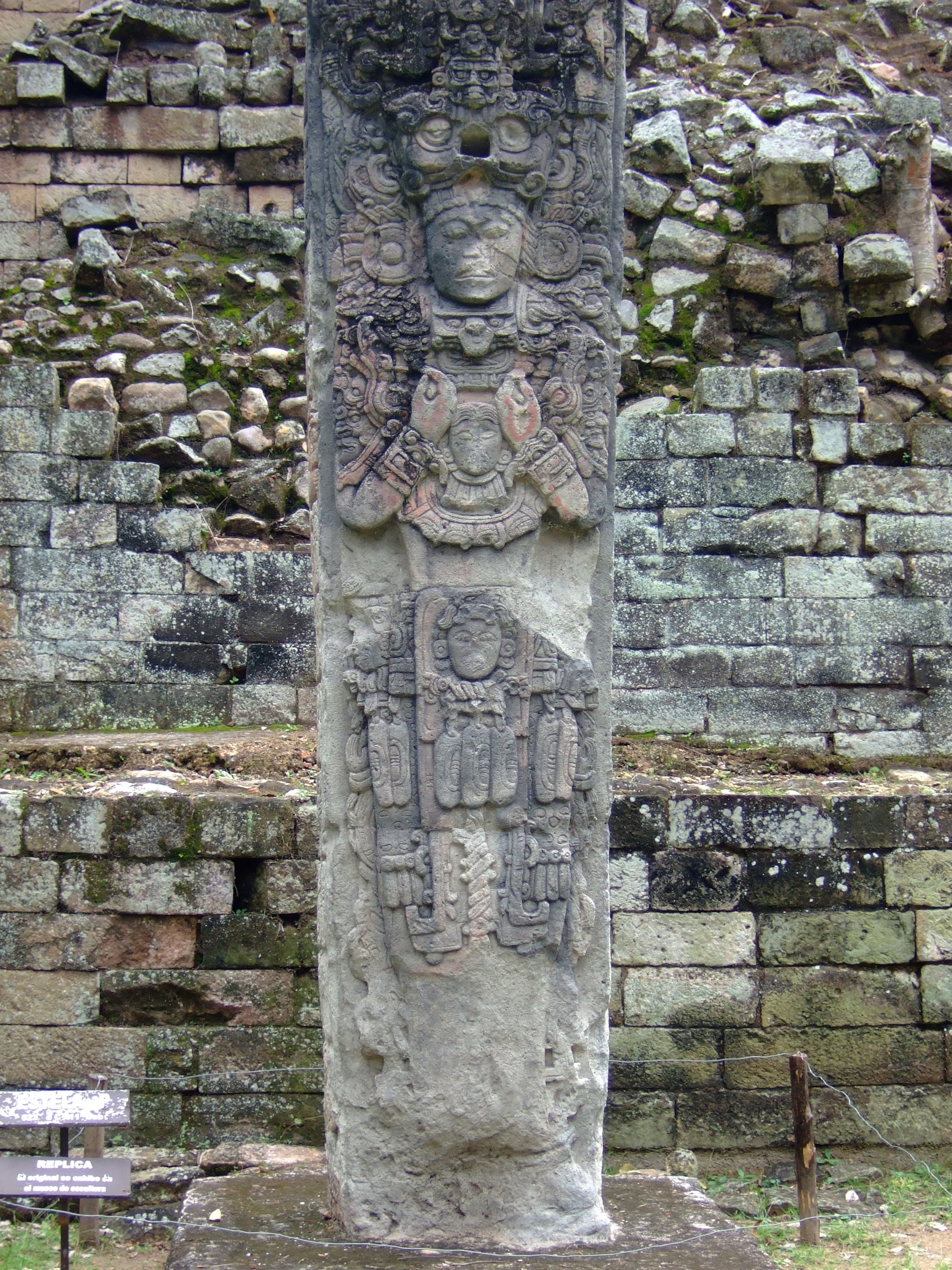 Stela P at Copán, Honduras, depicting king K'ak' Chan Yopaat and dated to AD 623.